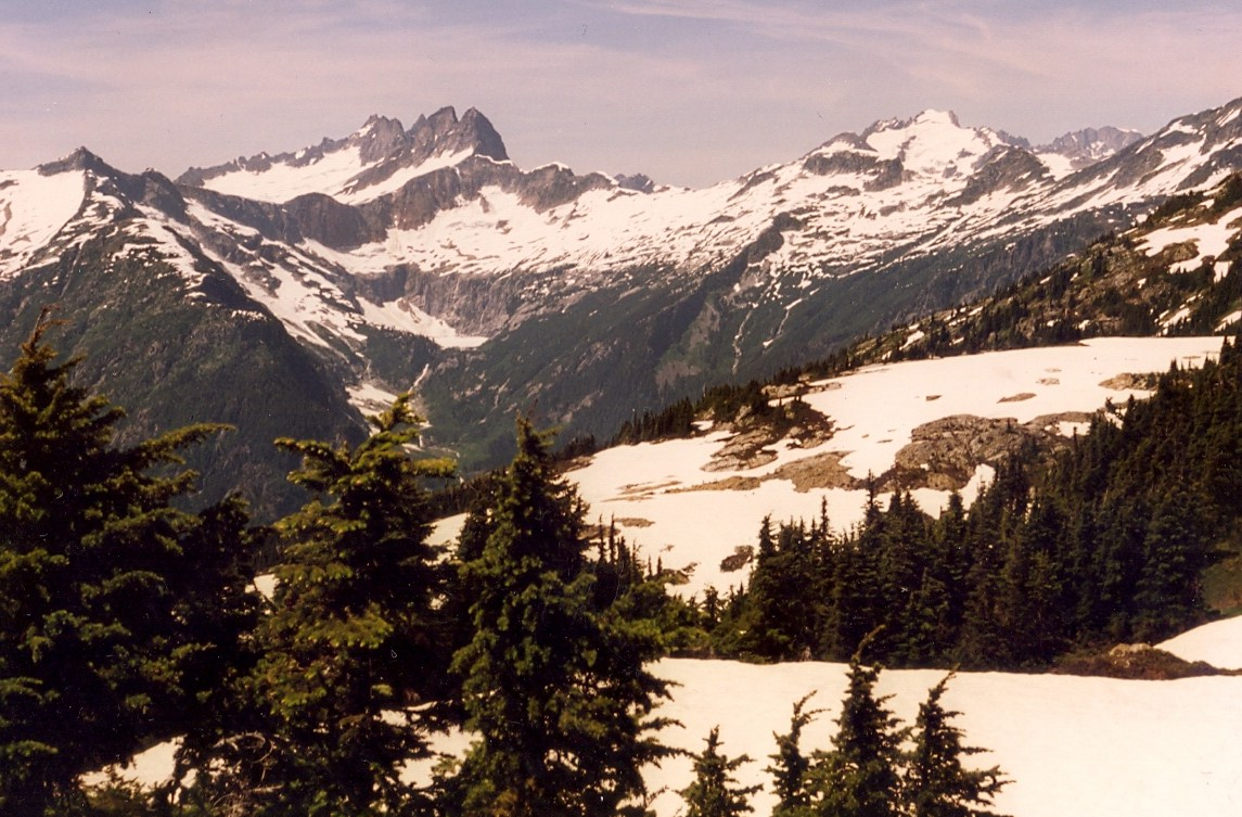 McMillan Spires and Mount Fury seen from Sourdough Mountain in the North Cascades.